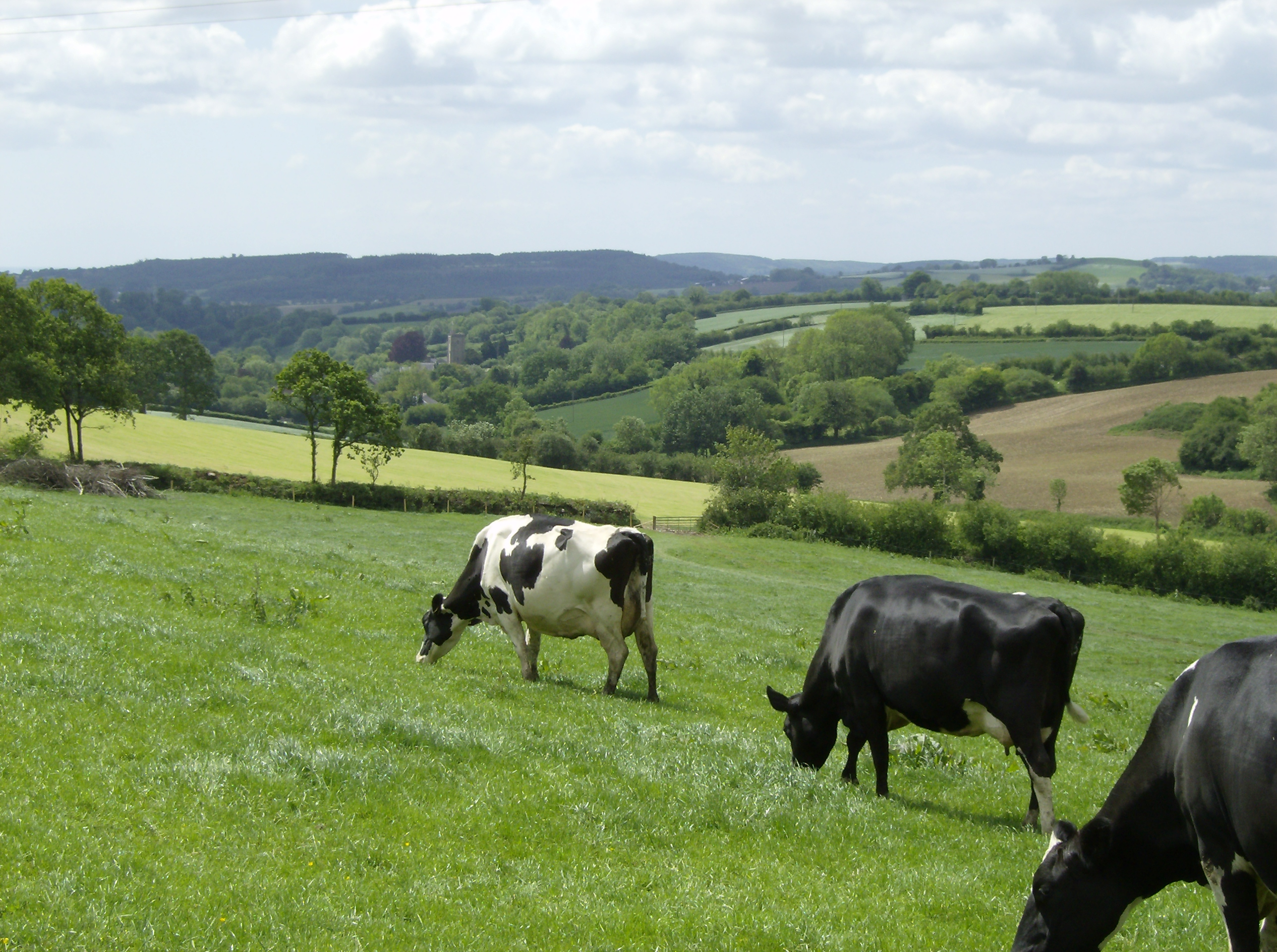 Cattle, Blackdown Hills AONB near Dalwood, Devon, UK